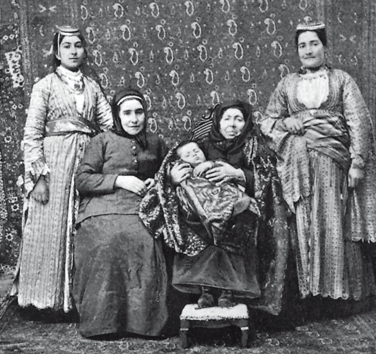 This file is a reproduction from an image in the book "Armenia: Travels and Studies, Vol. 1" authored by Harry Finnis Blosse Lynch, London 1901. The image's title is "Five generations of an Armenian family". It has been reprinted in the book "Rebellenland" by Christopher de Bellaigue, Munich 2008 (Verlag C.H.Beck).